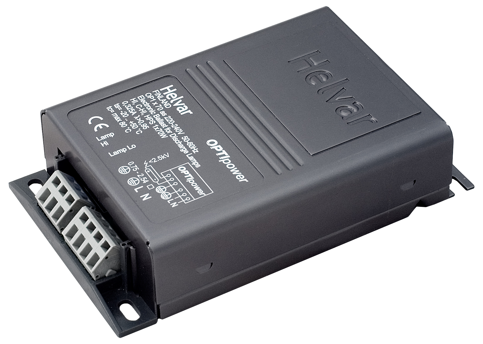 Helvar electronic ballast for Metal Halide lamps 70W